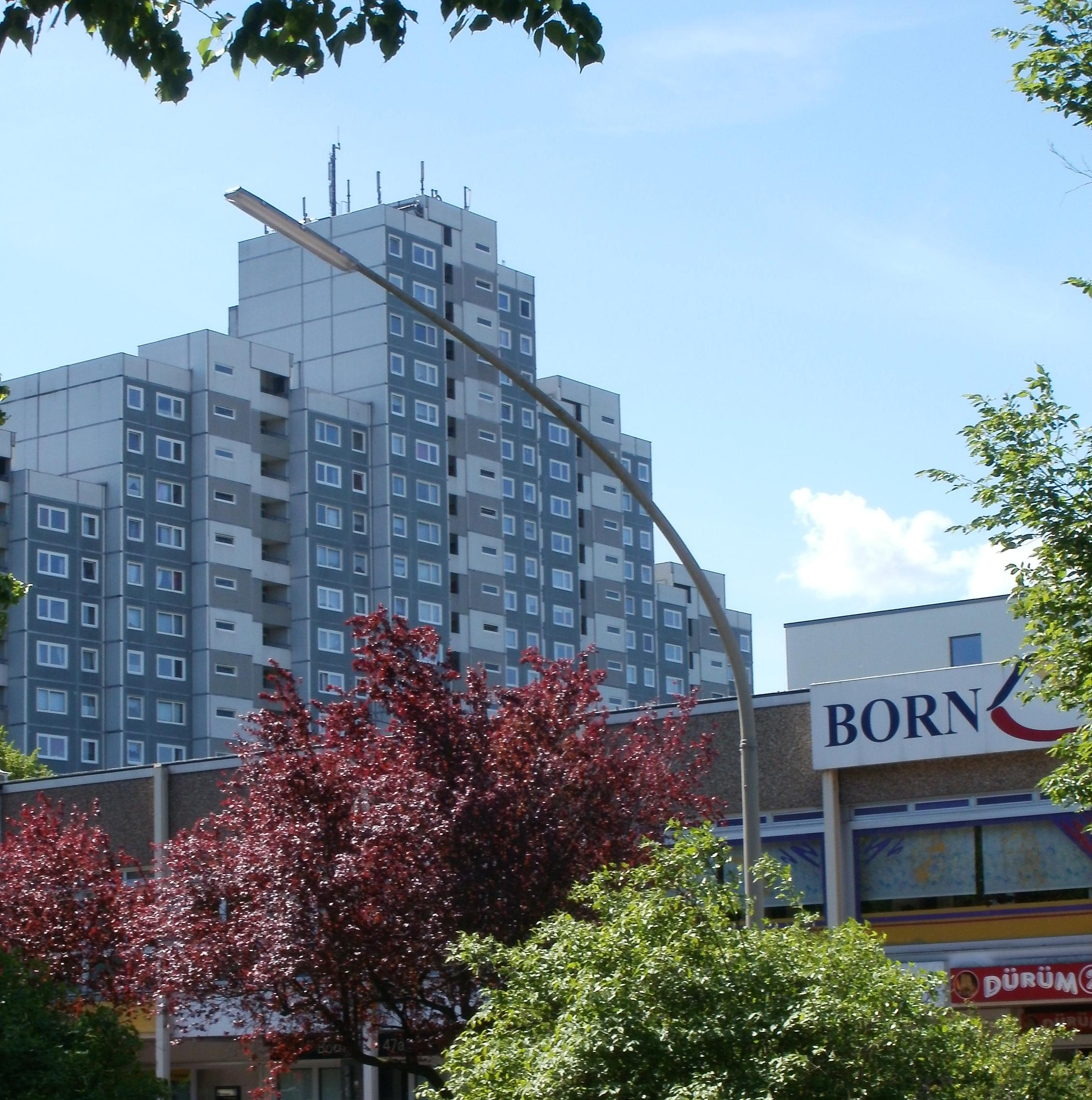 District in Hamburg-Osdorf, Germany.